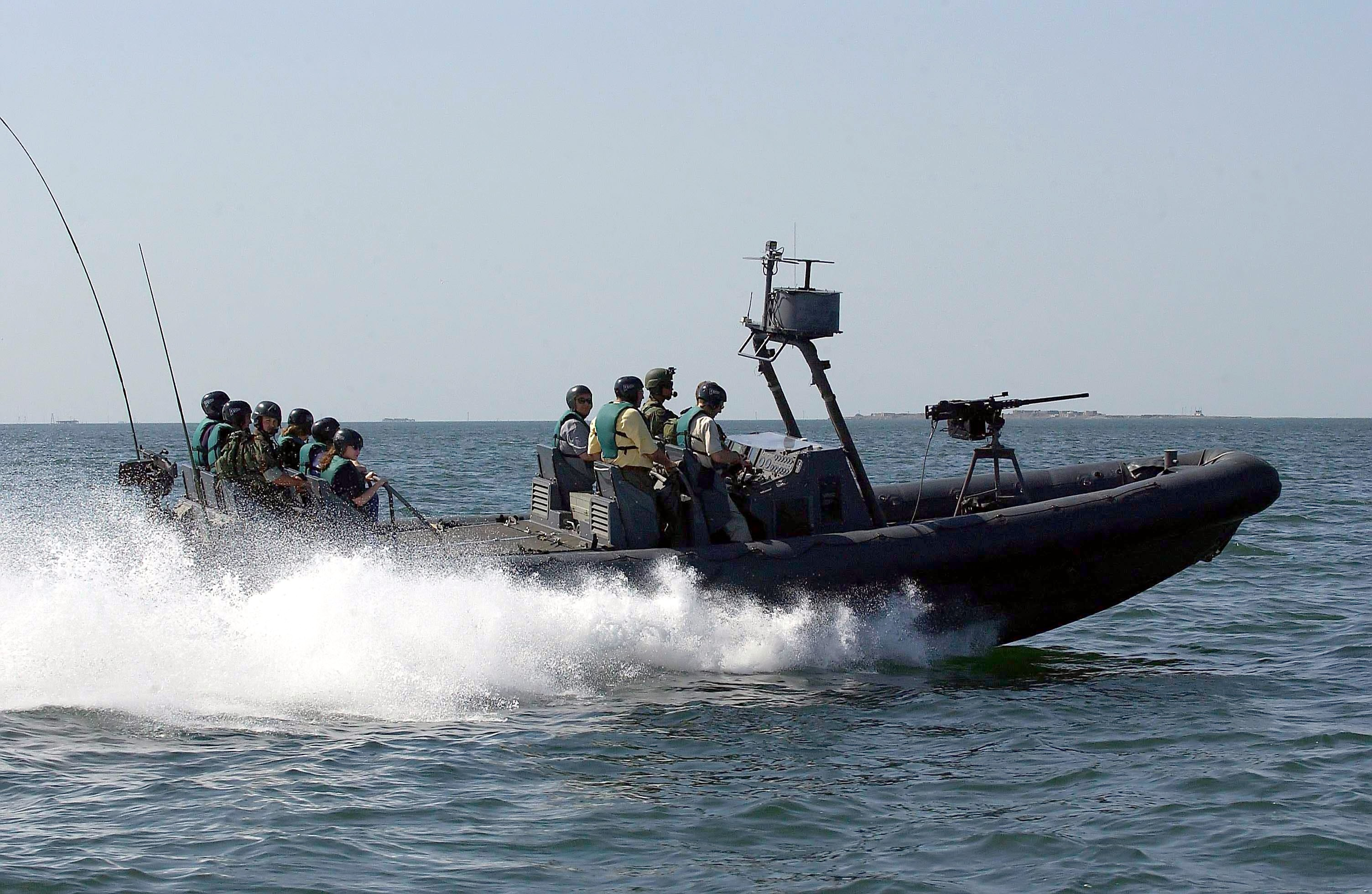 Participants in the 2004 Joint Civilian Orientation Conference take a ride in a US Navy special operations rigid inflatable boat during a visit to Baku, Azerbaijan, June 9 Photo by Tech. Sgt. Michael Buytas, USAF